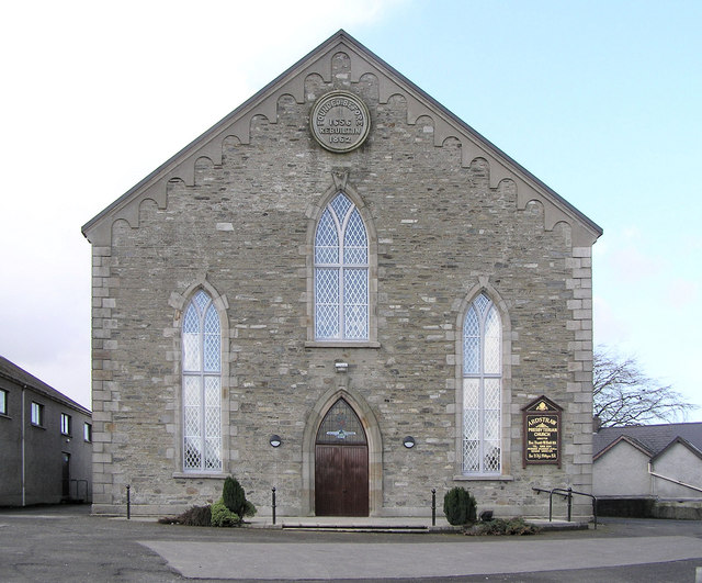 Ardstraw Presbyterian Church. Founded before 1656 and built in 1862, it is located at the west side of the village